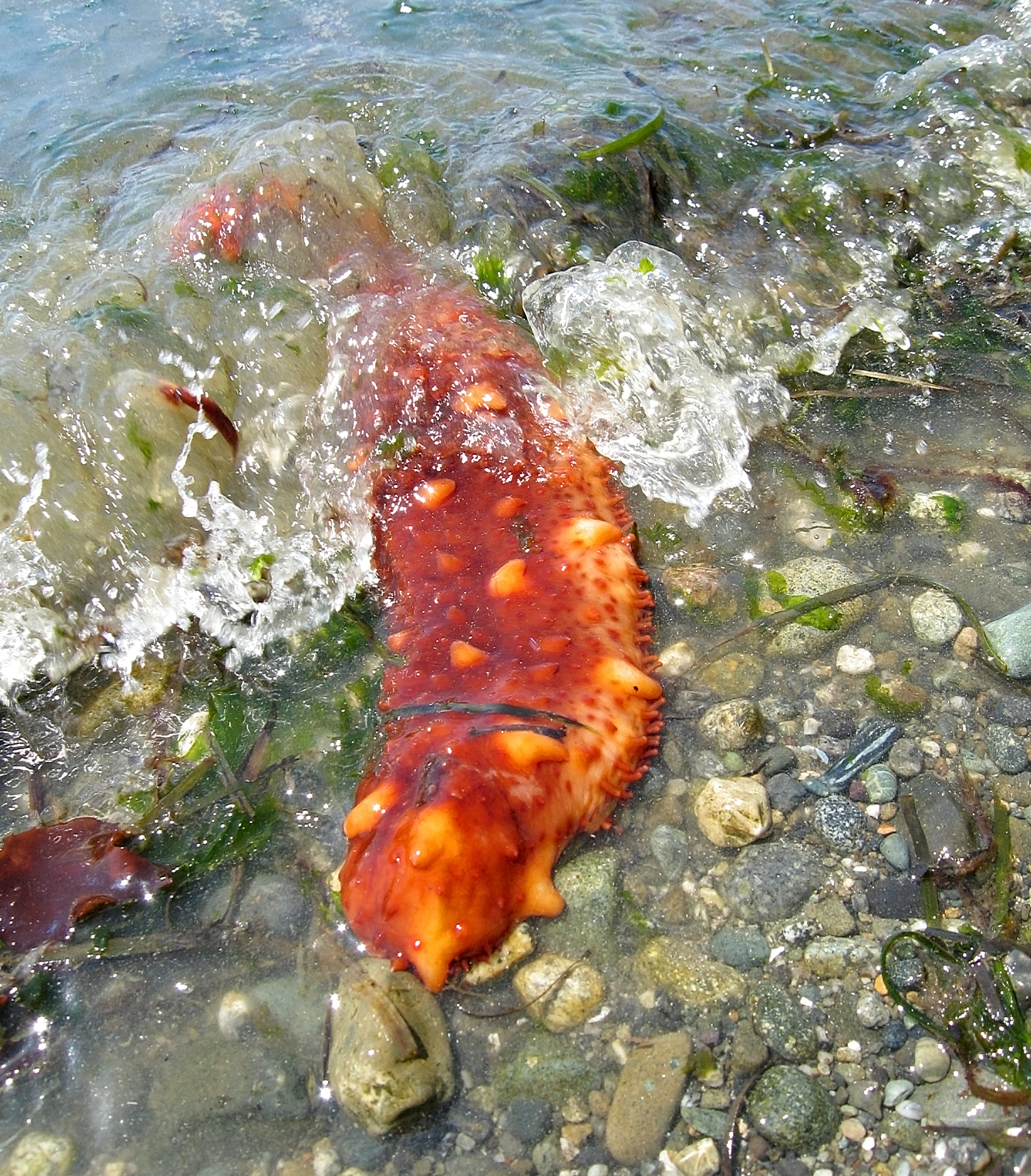 Giant California sea cucumber (Apostichopus californicus) at the lowest ebb of the tide in Saratoga Passage, the part of Puget Sound between Camano Island and Whidbey Island.